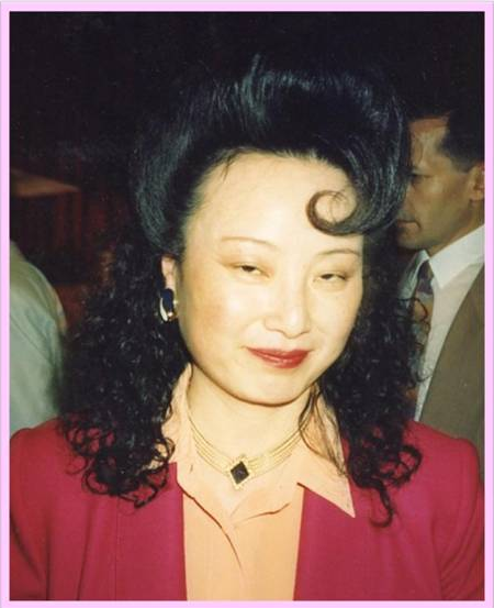 Master Aiping Wang, may 1992, Ljubljana